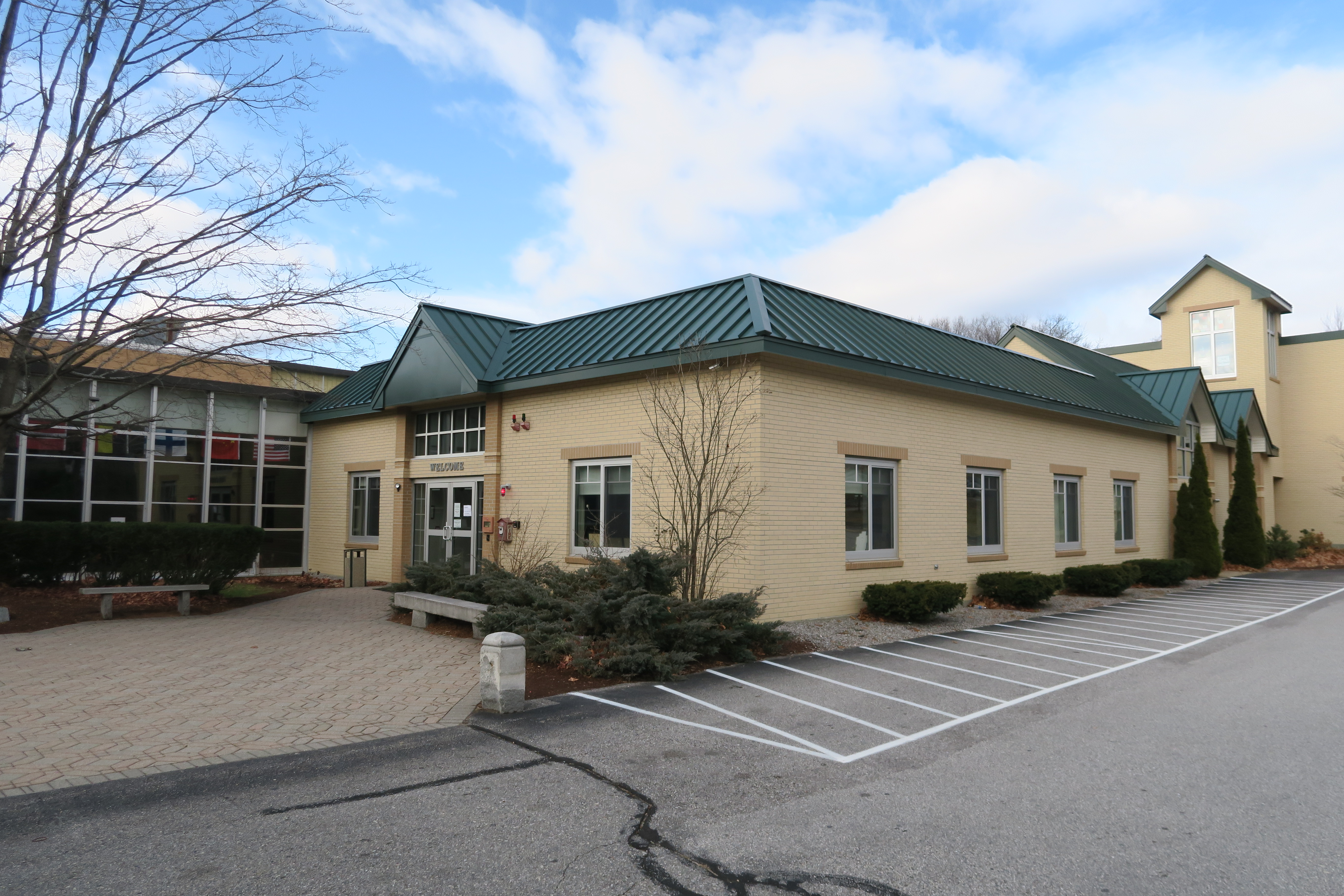 Bishop Brady High School, Concord New Hampshire